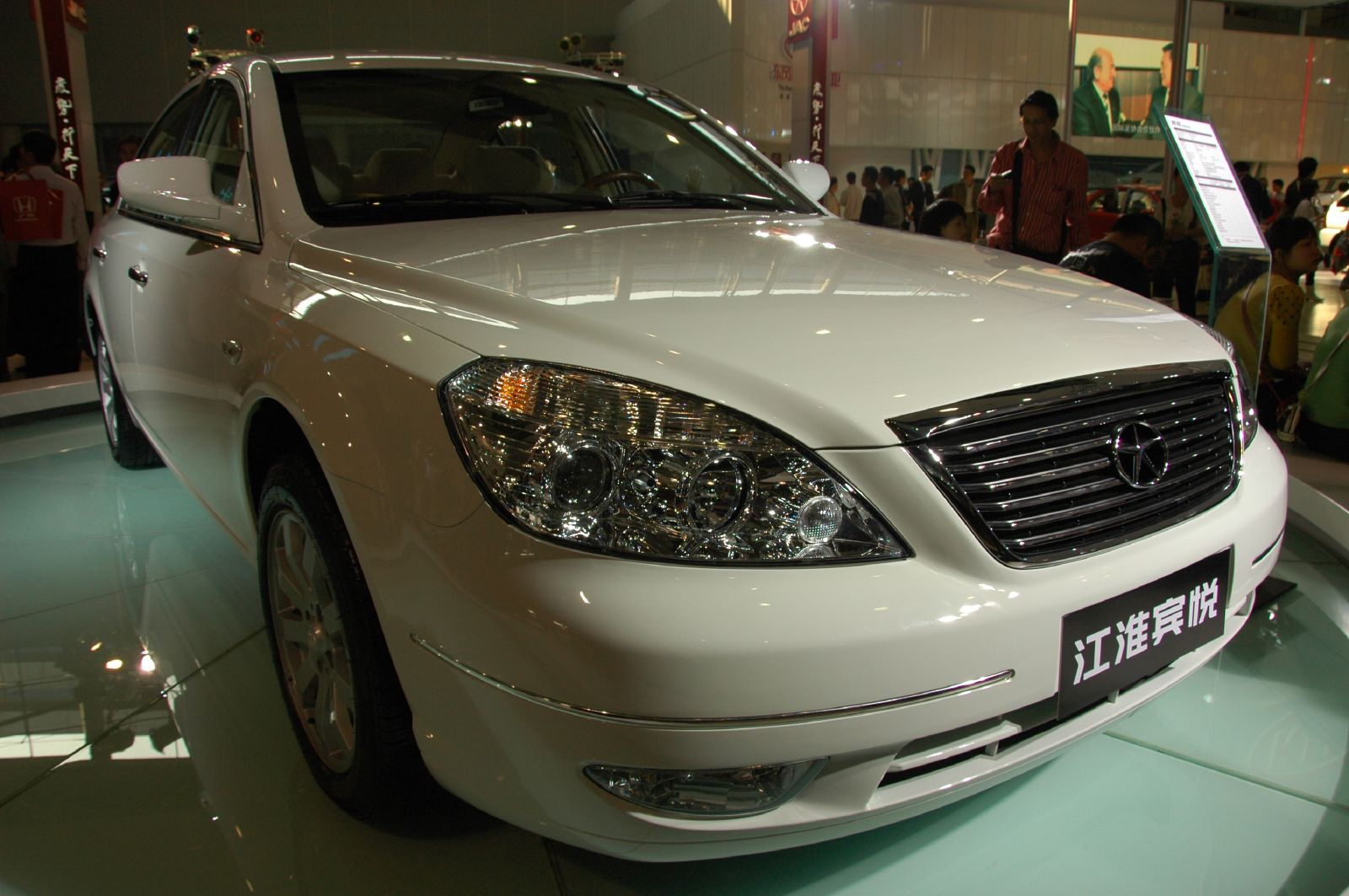 2008 Jianghuai Bingyue C200/C240, also referred to as JAC HFC7200/7240.